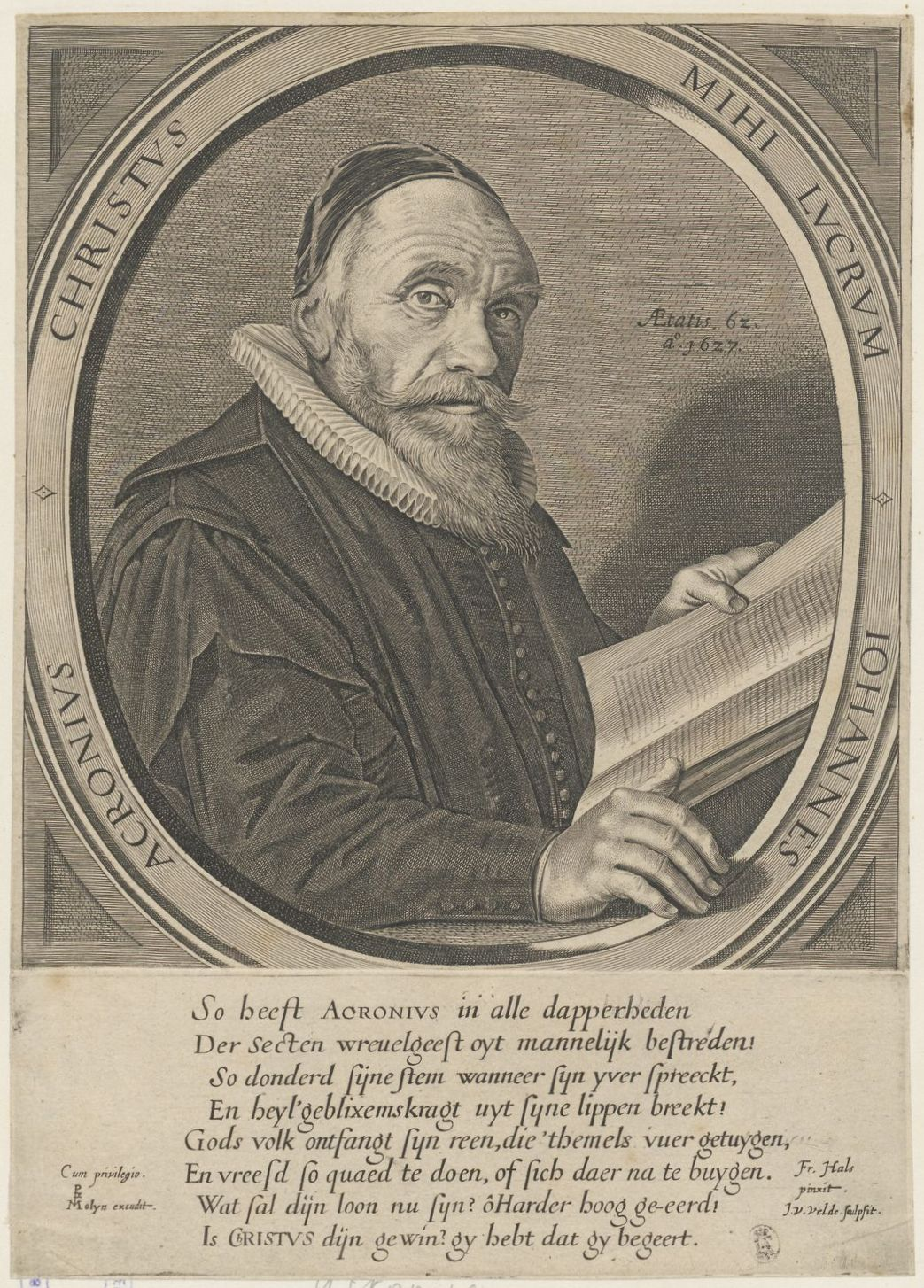 Engraved portrait of the preacher Johannes Acronius after Frans Hals with poem inscription. So heeft Acronius in alle dapperheden Der Secten wreuelgeest oyt mannelijk bestreden! En heyl'geblixemskragt uyt syne lippen breekt! Gods volk ontfangt syn reen, die 'themels vuer getuygen, En vreesd so quaed te doen, of sich daer na te buygen. Wat sal dijn loon nu syn? ôHarder hoog ge-eerd! Is Christus dijn gewin? gy hebt dat gy begeert.